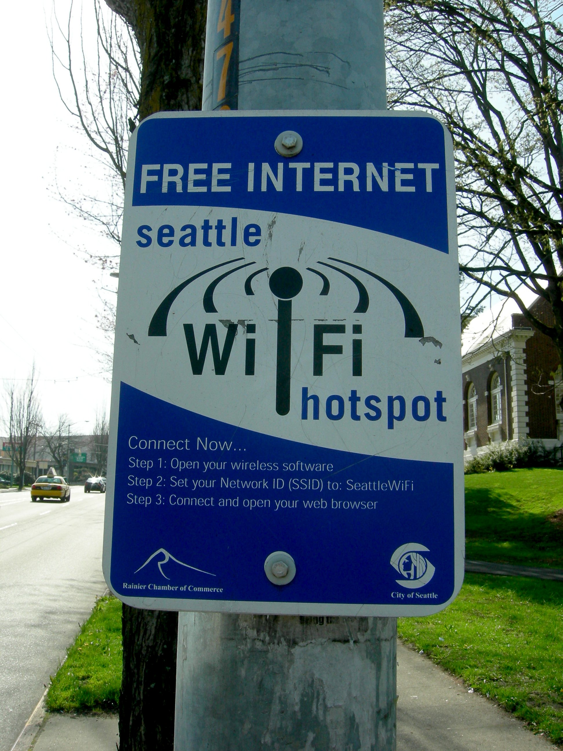 A sign in Columbia City, Seattle, Washington indicates that the entire neighborhood is a wifi zone.